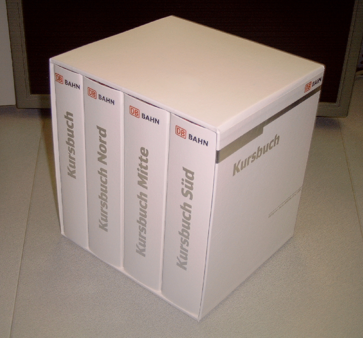 DB Railways Book, last print-edition in 2008/2009